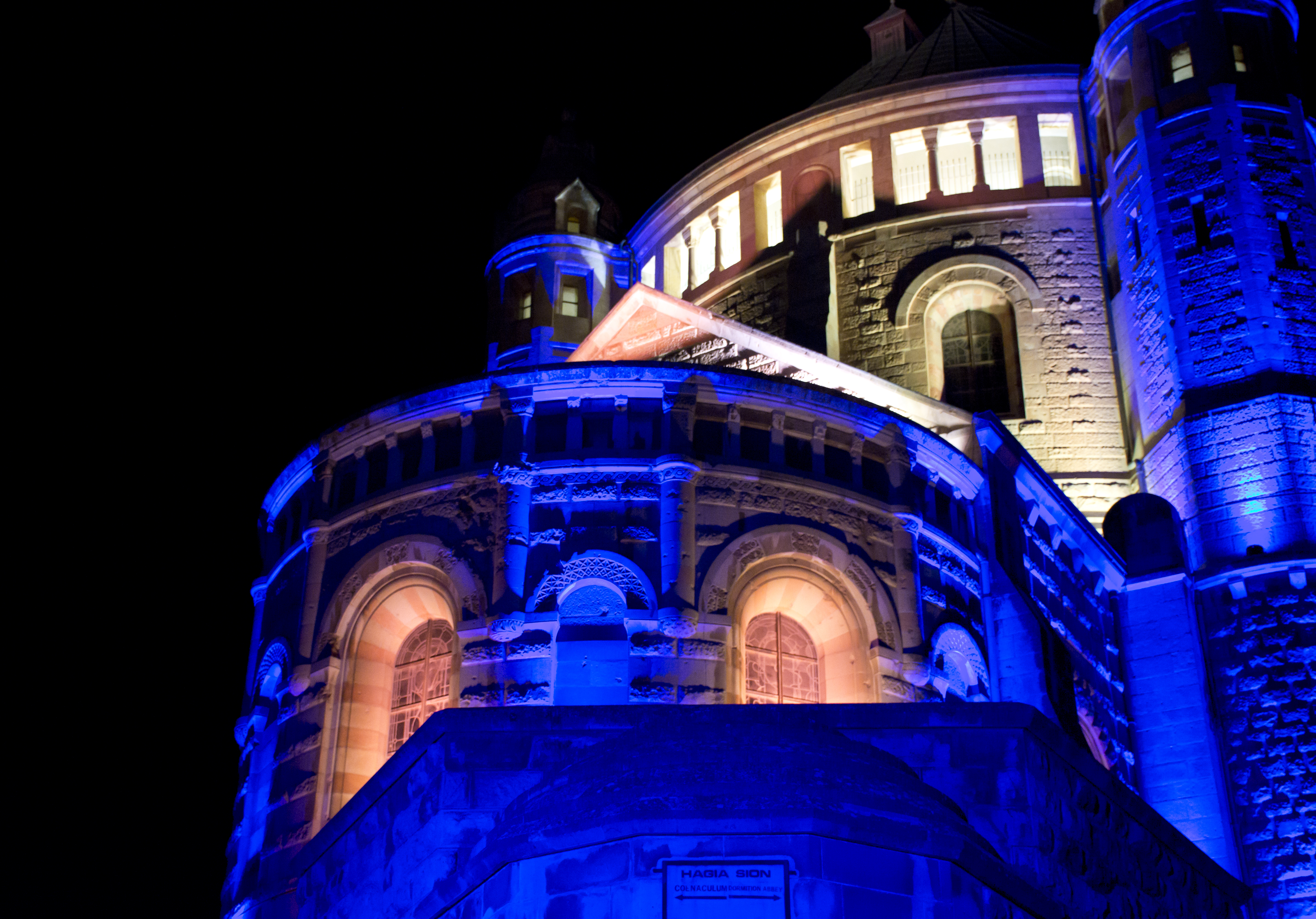 Dormition, Hagia Maria Sion Abbey, Jerusalem, Israel ID: 1-3000-802 WikiLovesMonument דורמיציון, ירושלים, ישראל